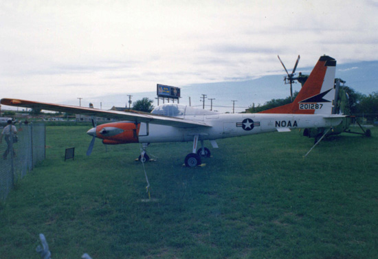 The second prototype LTV Electrosystems L450F spyplane, following retirement.